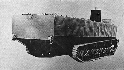 Rear-side angle view of Imperial Japanese Navy Type 4 Ka-Tsu amphibious landing craft of World War II